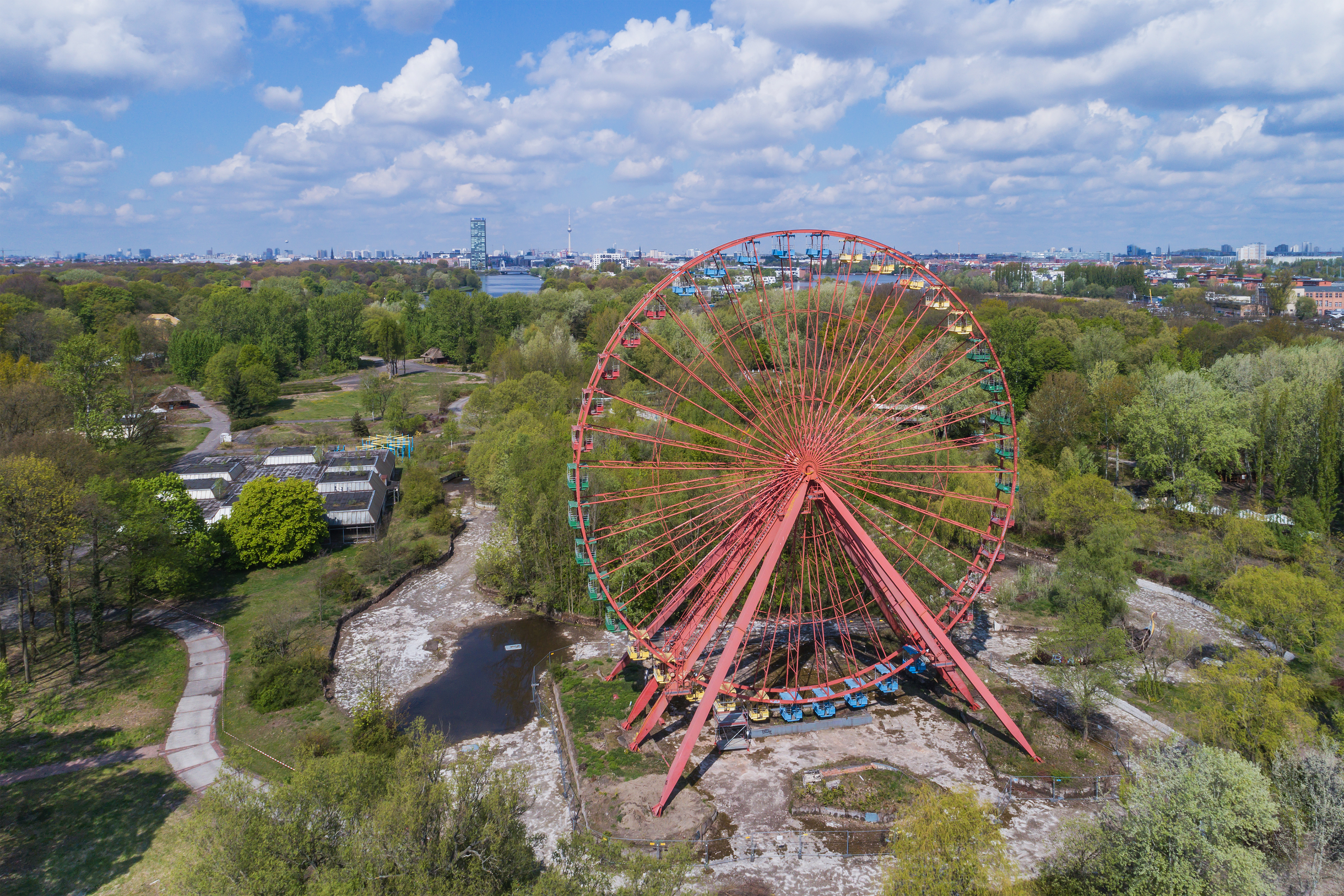 Abandoned Spreepark with ferris wheel in Berlin (Germany)